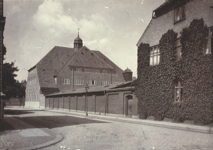 The Post Goods Office building in Amaliegade, Copenhagen, rear view. Designed by Martin Borch. Demolished.